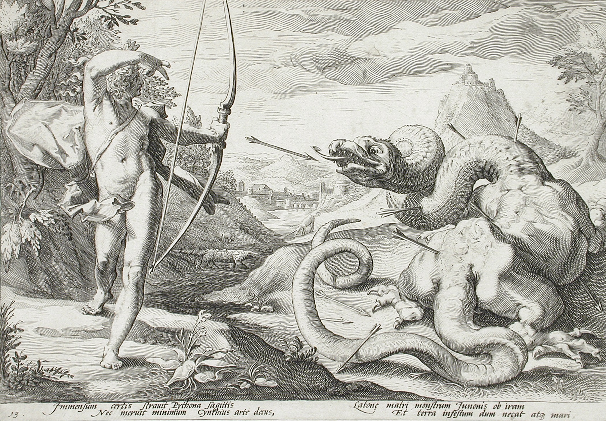 Holland, published 1589 Book: Metamorphoses by Ovid, book 1, plate 13 Prints; engravings Engraving Gift of Mrs. Irene Salinger in memory of her father, Adolph Stern (54.70.1i) Prints and Drawings